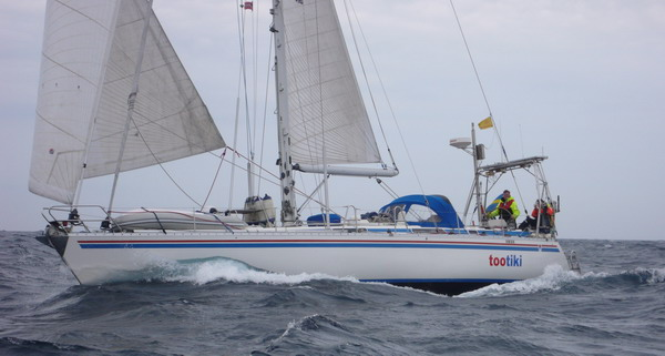 A picture of a Wasa 530 sailing in 9,5 knots on the North Sea towards the Shetland islands.